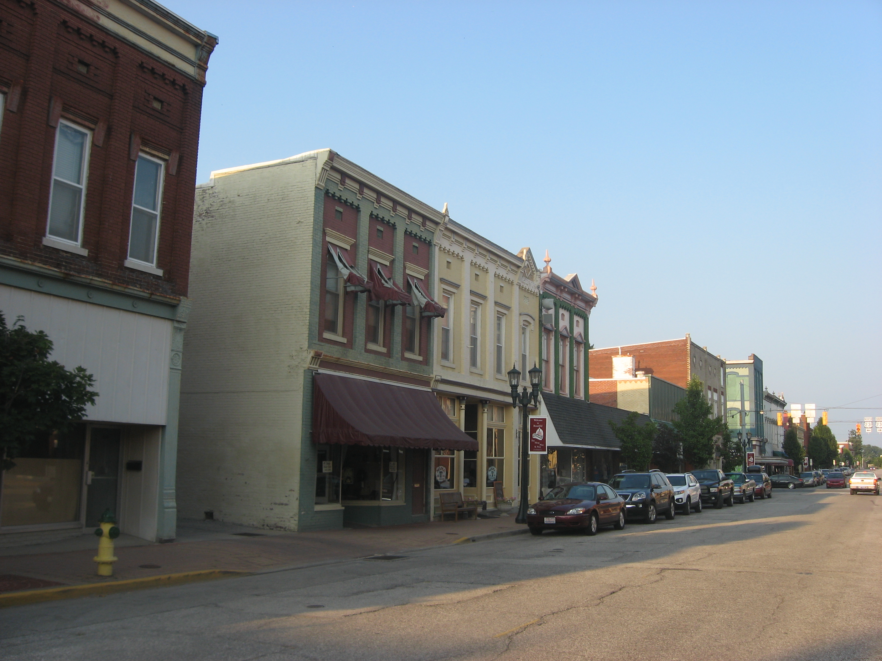 Buildings on the northern side of the 100 block of W. Fourth Street in downtown Huntingburg, Indiana, United States. This block is part of the Huntingburg Commercial Historic District, a historic district that is listed on the National Register of Historic Places.